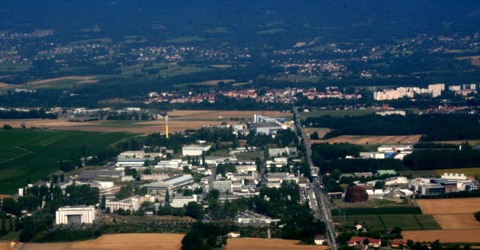 An aerial view of the main site of CERN, at the border between Switzerland and France near Geneva, looking towards the Jura mountains in France.